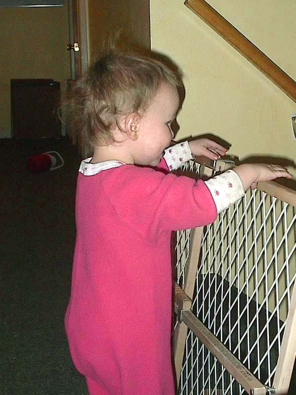 A baby peeking over the top of a baby gate.